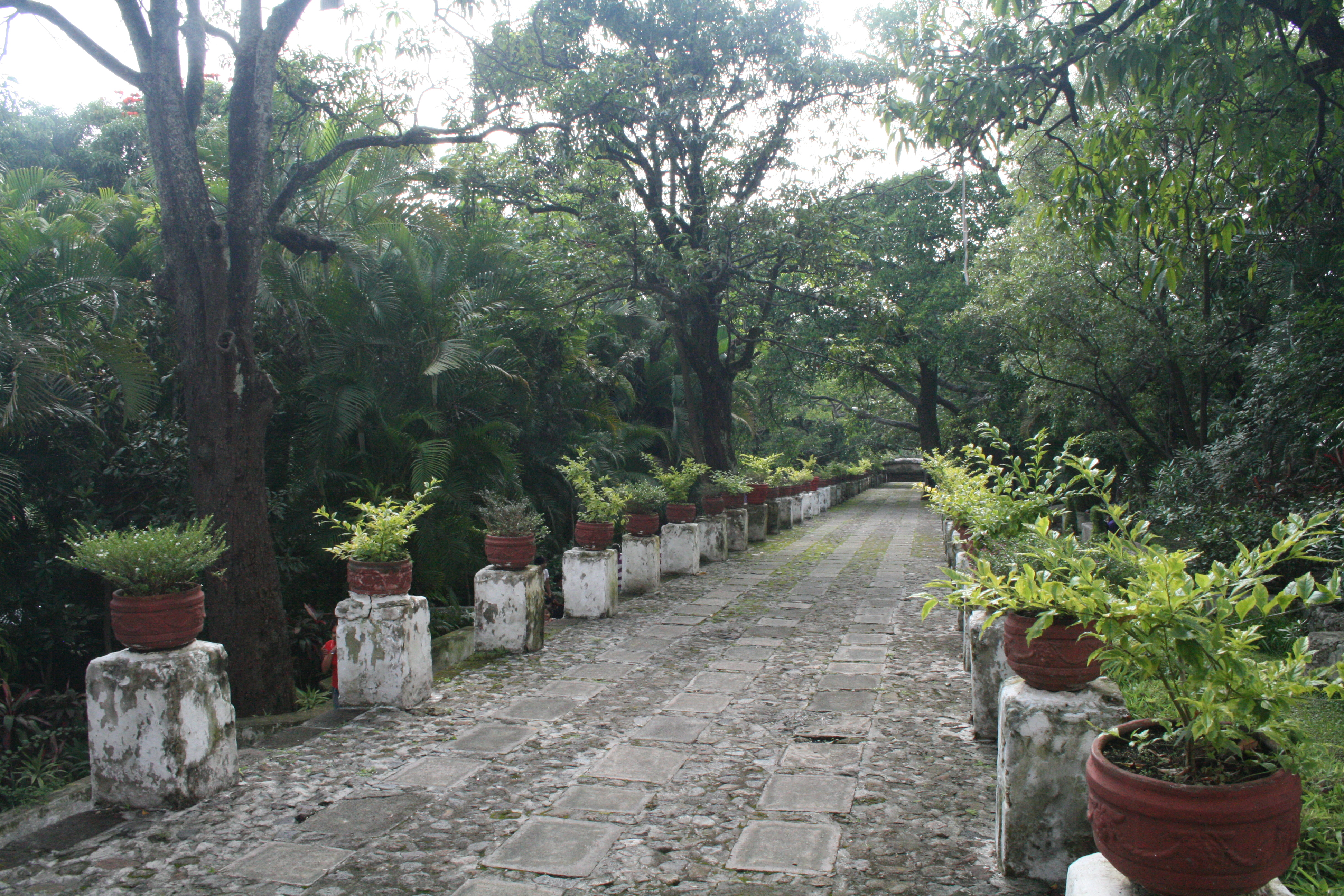 El Jardín Borda se encuentra en Cuernavaca, Morelos.